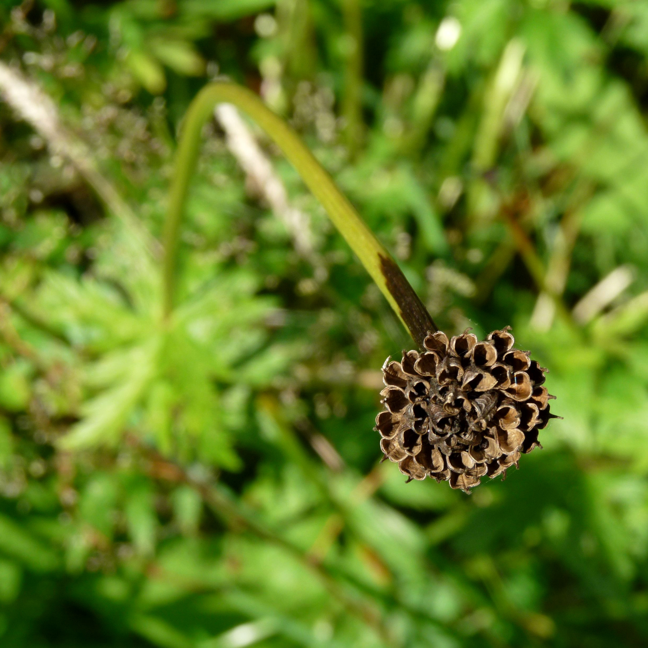 Seeded globe-flower in the natural monument Upolíny north of the village of Libínské Sedlo, Prachatice District, South Bohemian Region, Czech Republic.